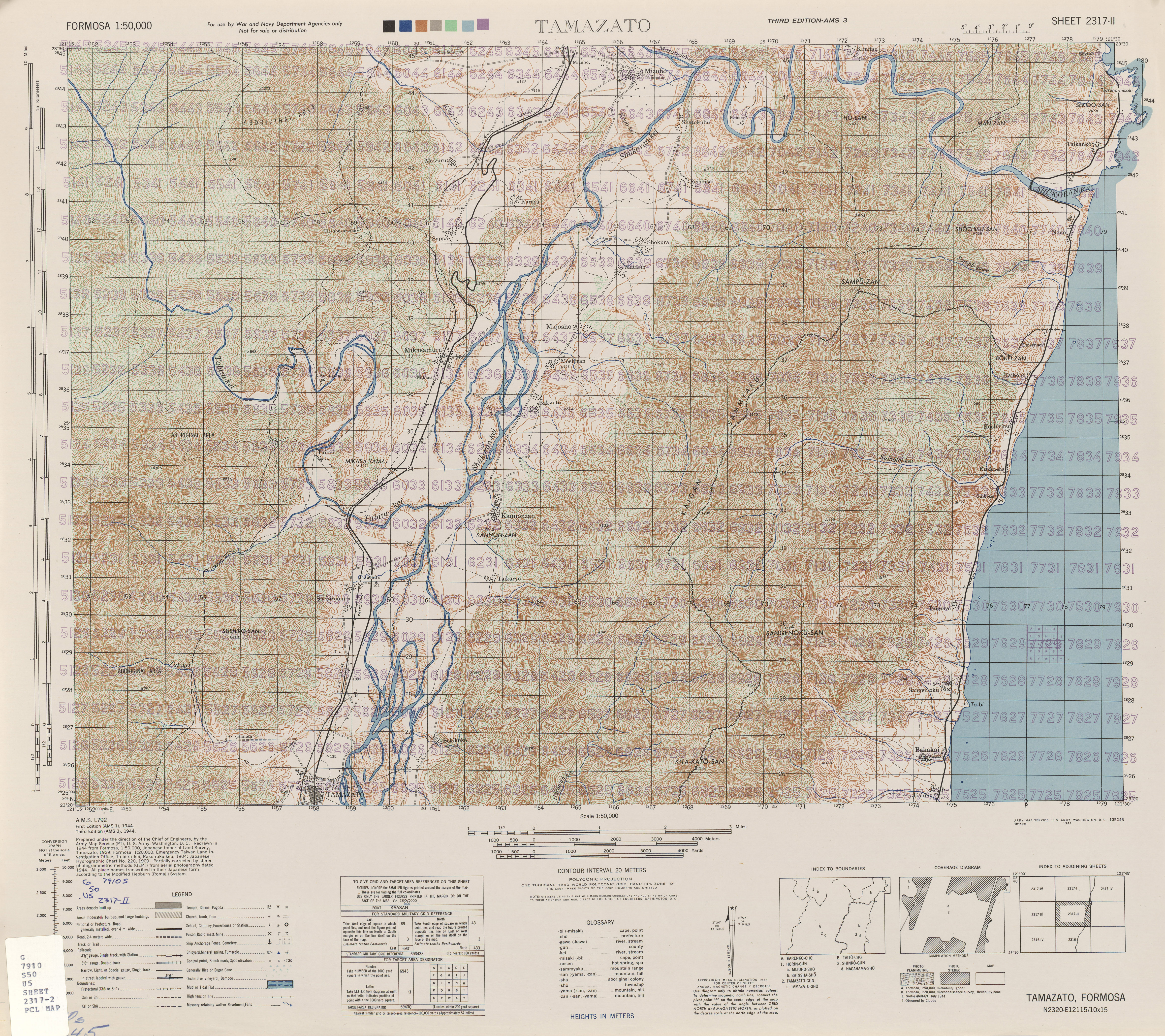 Map from Formosa (Taiwan) 1:50,000 AMS Series L792